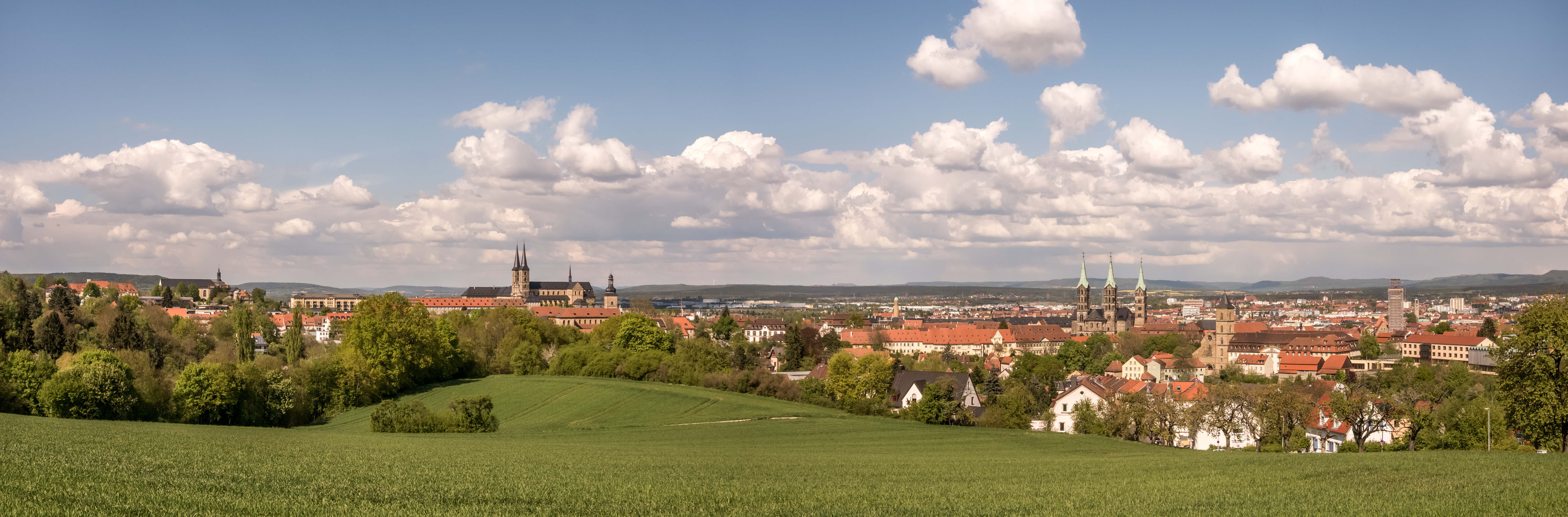 Panoramic of Bamberg